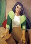 Mymering, 1949